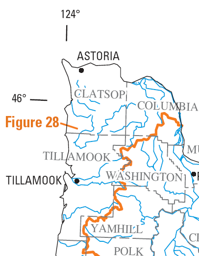 River drainage basins in the Northern Oregon Coast Range